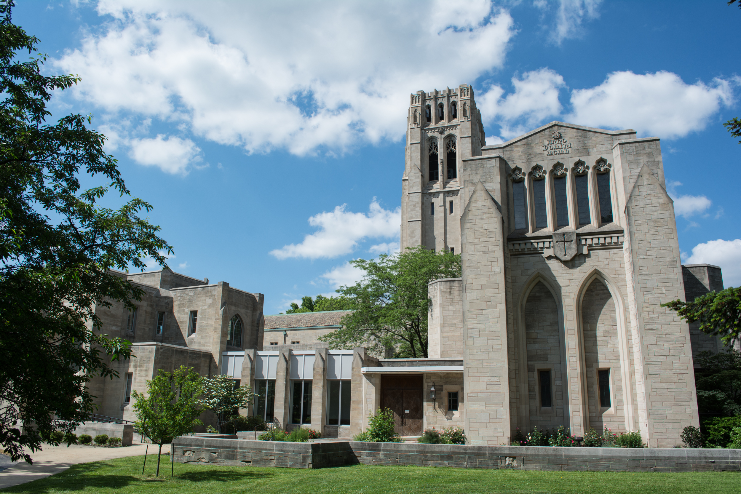 Entrance to the new narthex and (in rear) the bell tower of St. Paul's Episcopal Church at 2747 Fairmount Boulevard in Cleveland Heights, Ohio, in the United States. The church is located within the Euclid Golf Allotment, a planned community on the National Register of Historic Places.